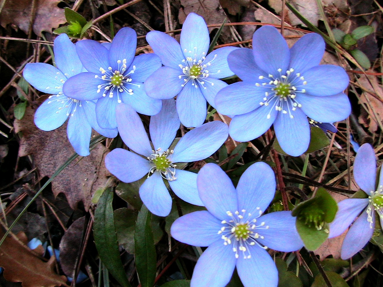 Anemone hepatica. In Torà (Segarra-Catalunya). To 630 m. altitude